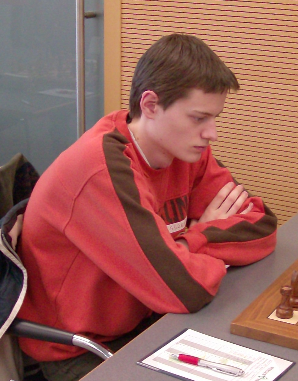 Daan Brandenburg, chess player from the Netherlands